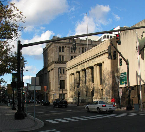 Summary A typical street scene in Bridgeport, CT Category:Images of Connecticut 03:04, 10 December 2005 GK tramrunner 500x456 (58527 bytes) (A typical street scene in Bridgeport, CT)